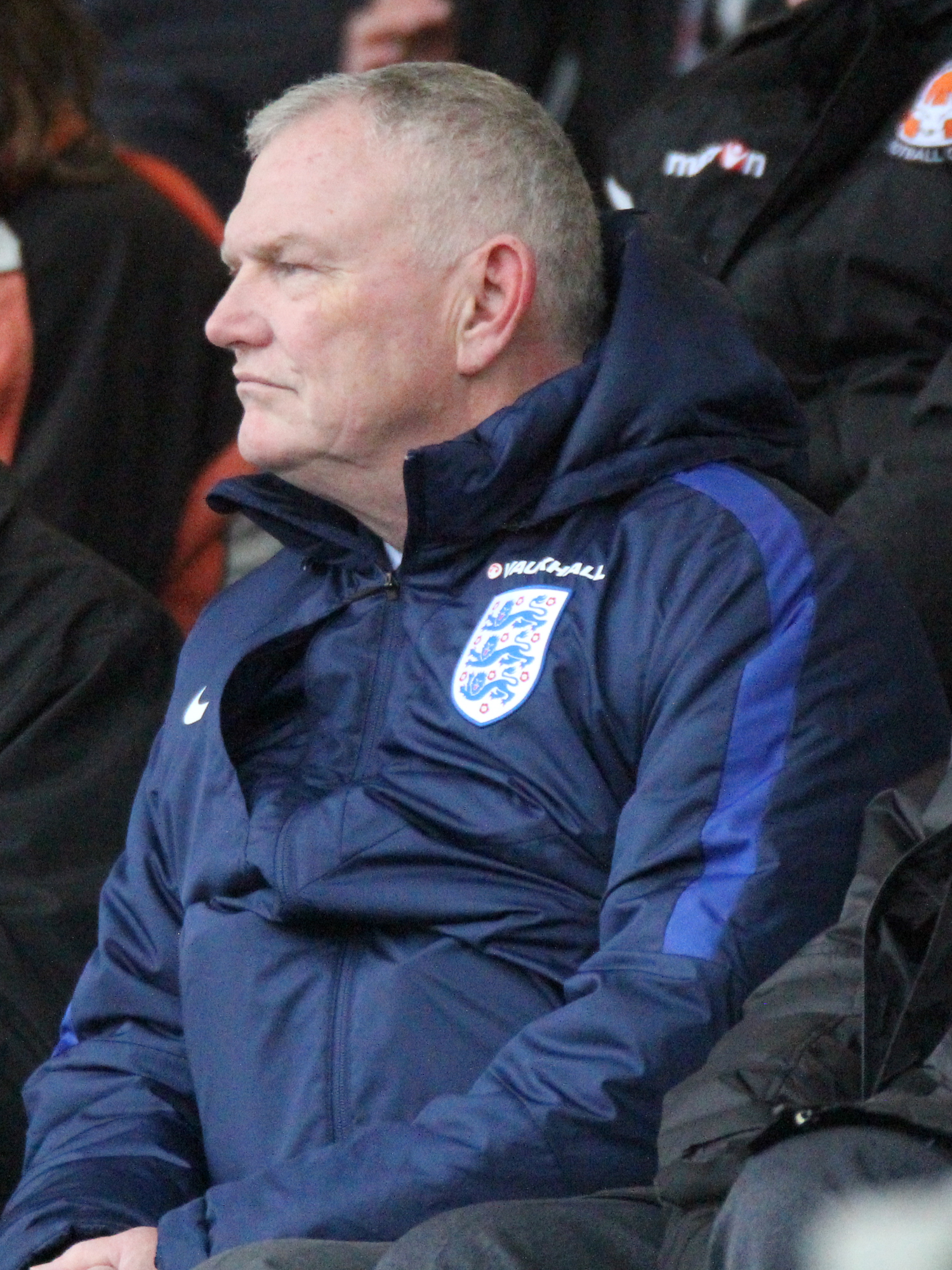 Greg Clarke attending Walton Casuals v Ramsgate in the Isthmian League South Division on Saturday 20 January 2018.